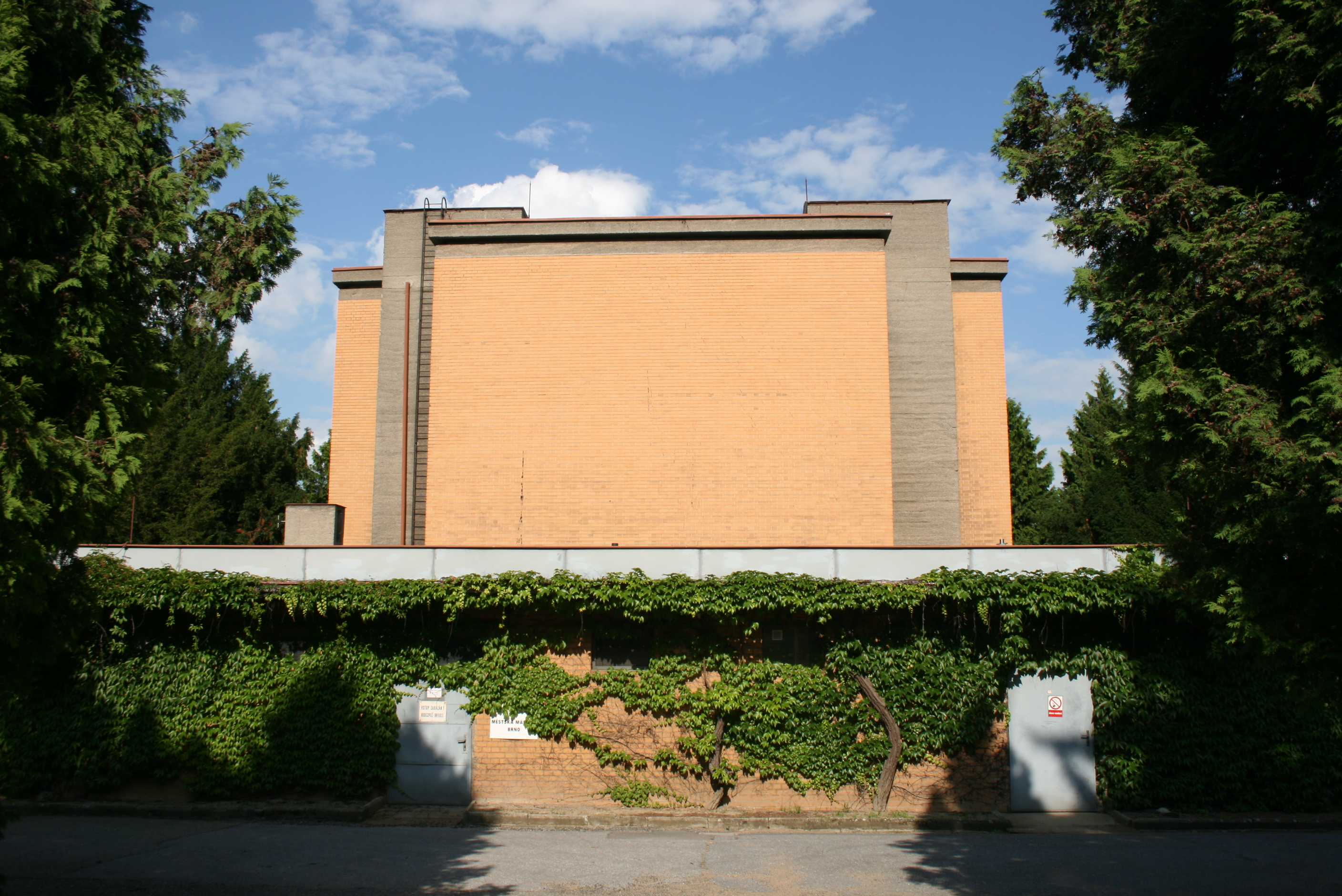 Ceremonial hall at Brno central cemetery, built by Bohuslav Fuchs in 1925.